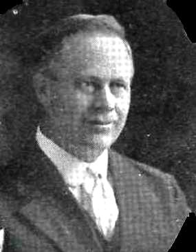 Andrew B. Christenson, the president of what is today Brigham Young University–Idaho from 1914-1917.